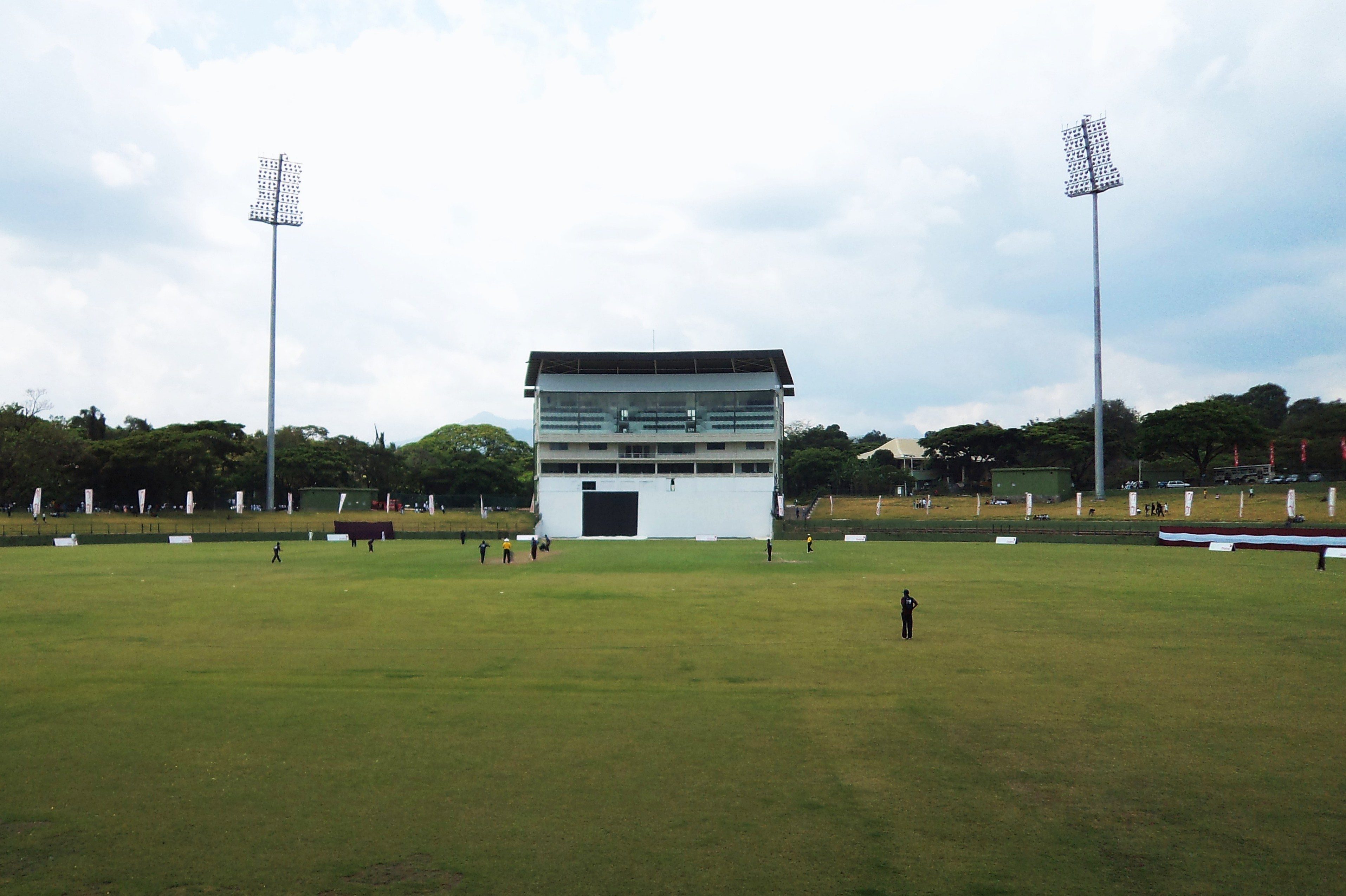 Pallekele International Cricket Stadium in Pallkele, Sri Lanka.